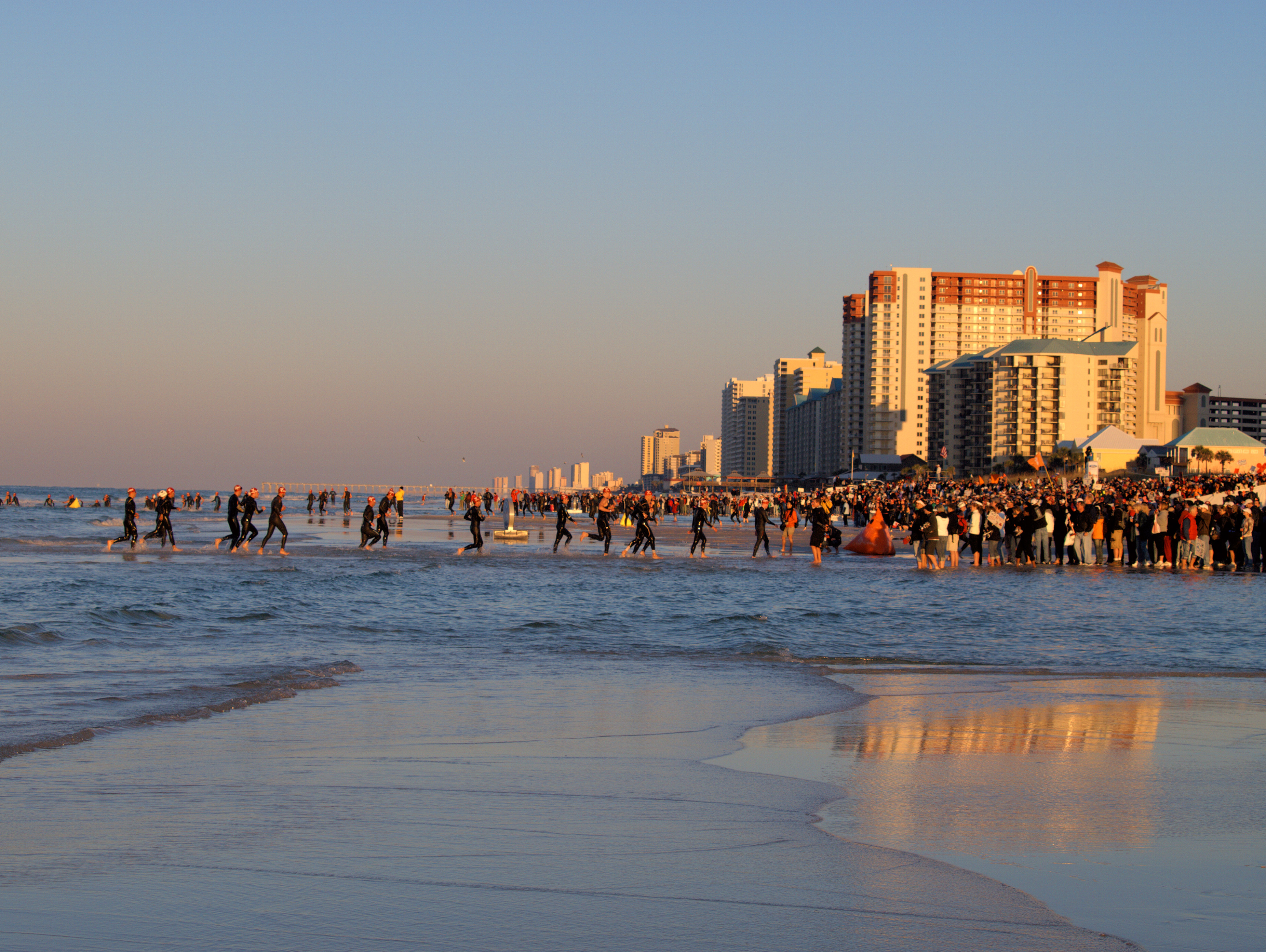 Finishing First Lap at Ironman Florida 2010